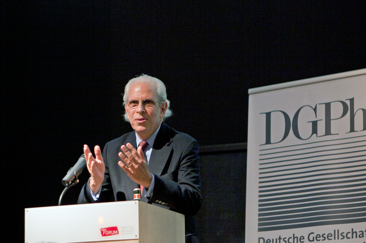 Stephen Shore at NRW-Forum Düsseldorf getting the Kulturpreis of Deutsche Gesellschaft für Photographie (DGPh)